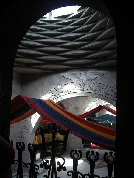 Ethnographic museum of Armenia in Sardarabad